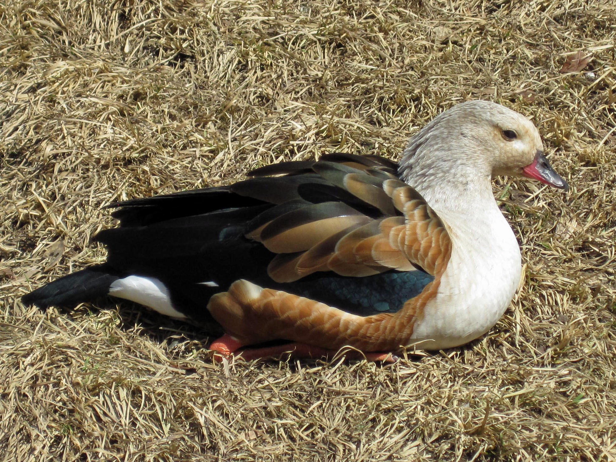 Orinoco Goose (Neochen jubata) - Sylvan Heights Waterfowl Park in Scotland Neck, North Carolina